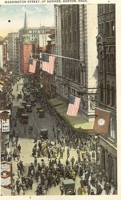 View down Washington street in Boston. Retail giants Jordan Marsh and Filene's stand tall on the right and the Old South Meeting House is seen further down the street.